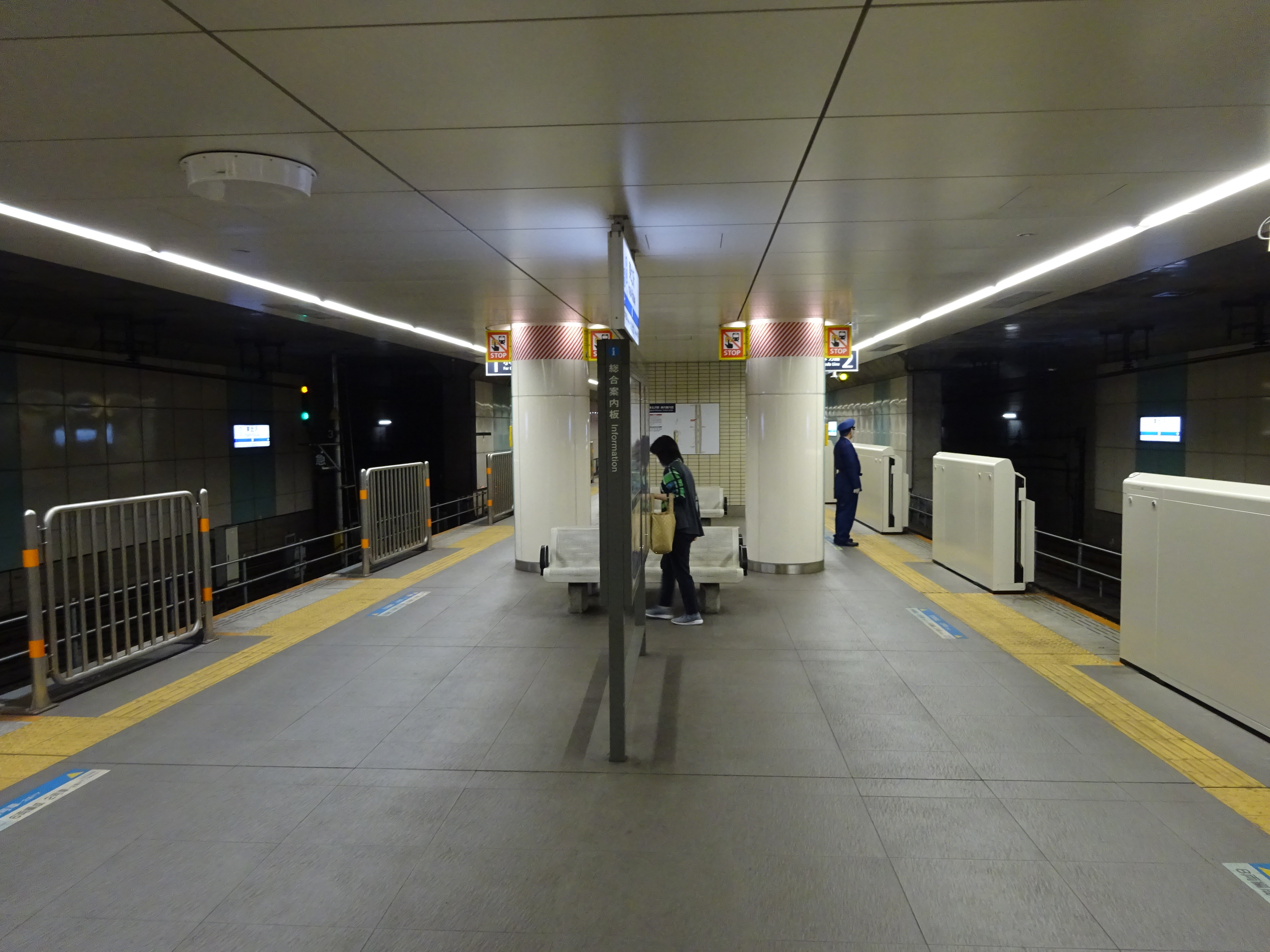 Platforms of Higashi-Kitazawa Station